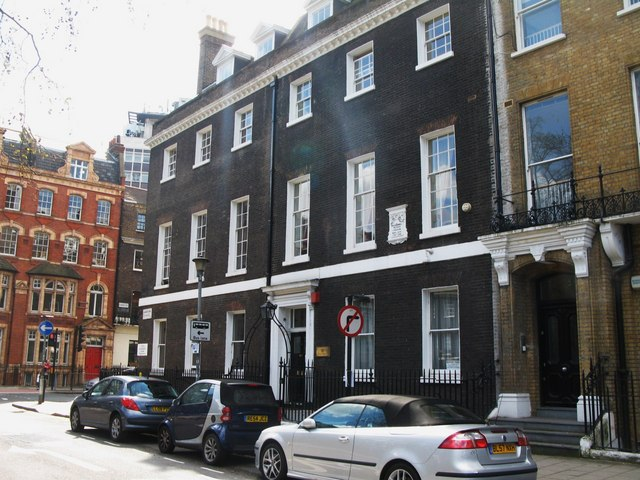 6 Bloomsbury Square, WC1. Shows the location of 1304580.